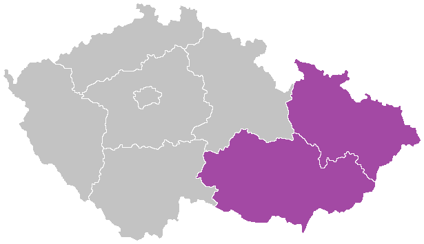 District of High court in Olomouc